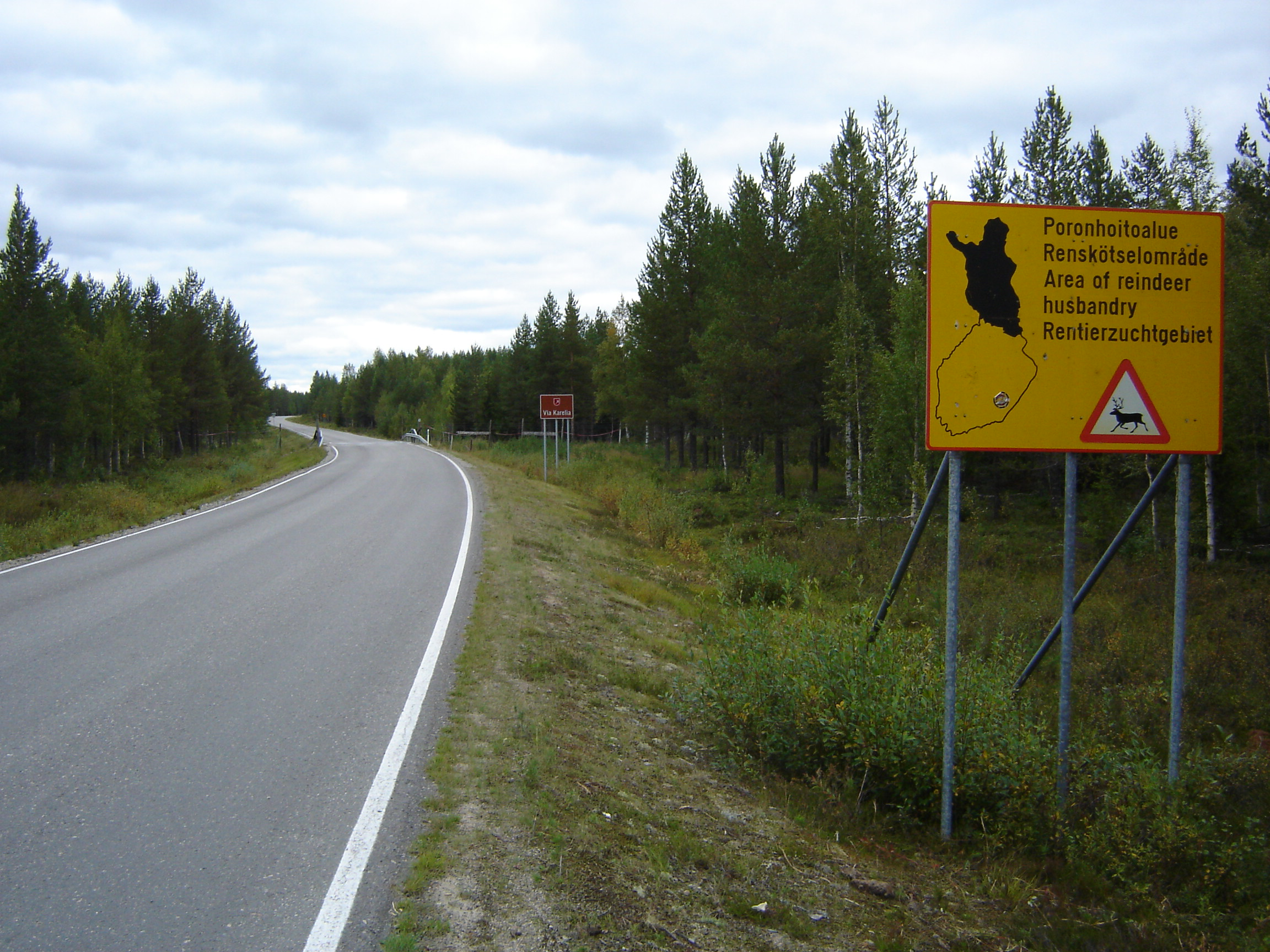 The Finnish reindeer husbandry area begins at the border of Kuhmo and Suomussalmi municipalities.